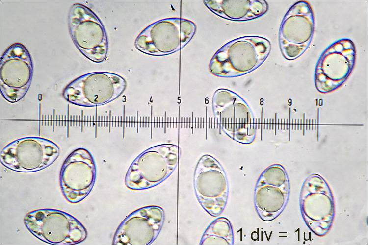 Helvella macropus (Pers.) P. Karst. Location: Spodnja Idrija Region, Goriško, Slovenia Observation Notes: Code: Bot_462/2010_IMG2584Habitat: extensively used grassland, flat terrain, on overgrown river deposits terrace, humid air place, full sun, exposed to direct rain, average precipitations 2.000-2.600 mm/year, average temperature 8-10 deg C, elevation 320 m (1.000 feet), borderline between prealpine and Dinaric phytogeographical region.Substratum: rich soilPlace: Near confluence of rivers Idrijca and Gačnik, right bank of river Idrijca, close to Spodnja Idrija town, Goriška, Slovenia EC For more information about this, see the observation page at Mushroom Observer.